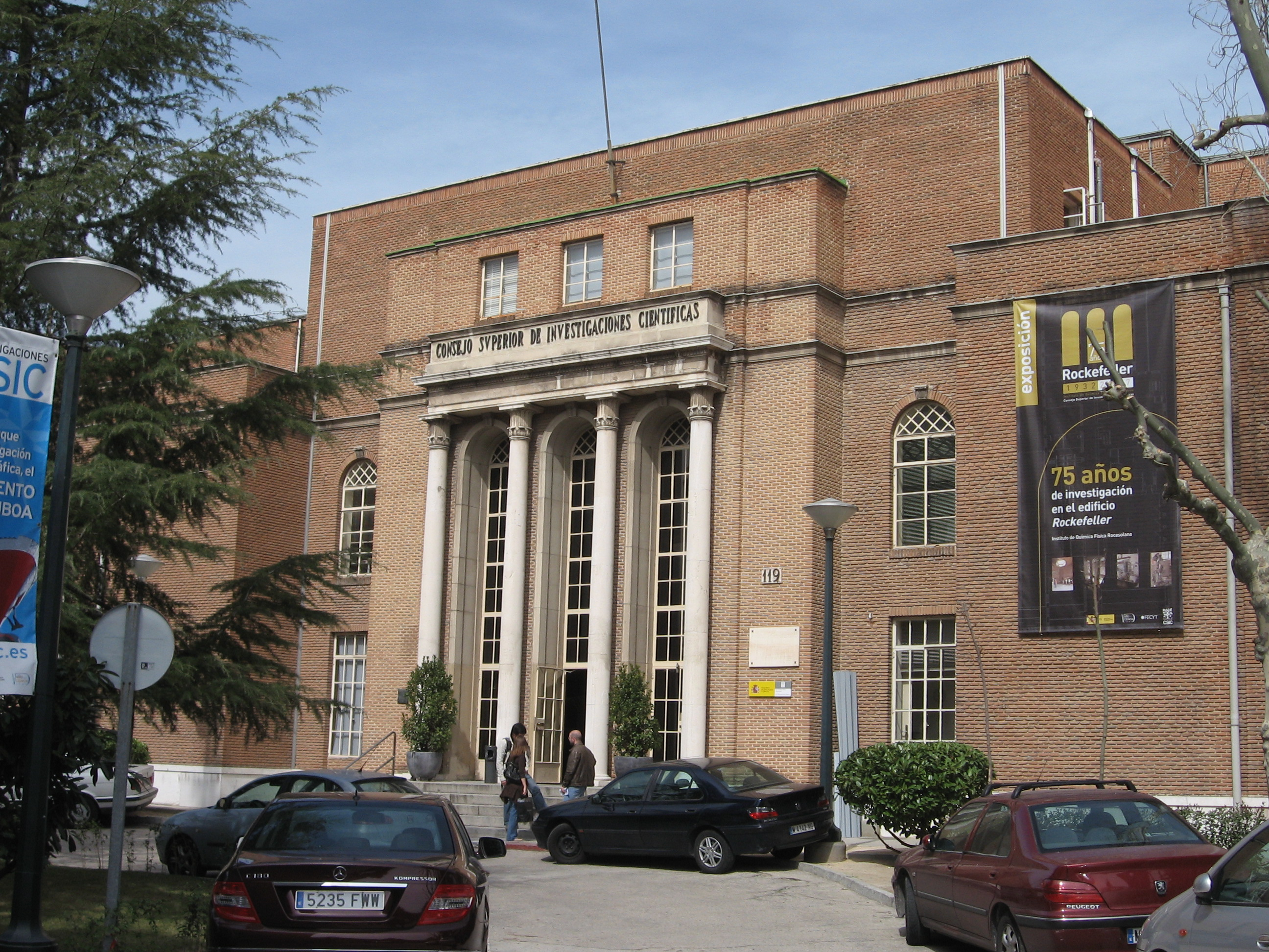 "Rockefeller Building" in Madrid, Spain, built between 1929 and 1931 for the "National Institute for Physics and Chemistry". It now houses the "Rocasolano" Physical Chemistry Institute (part of the CSIC).